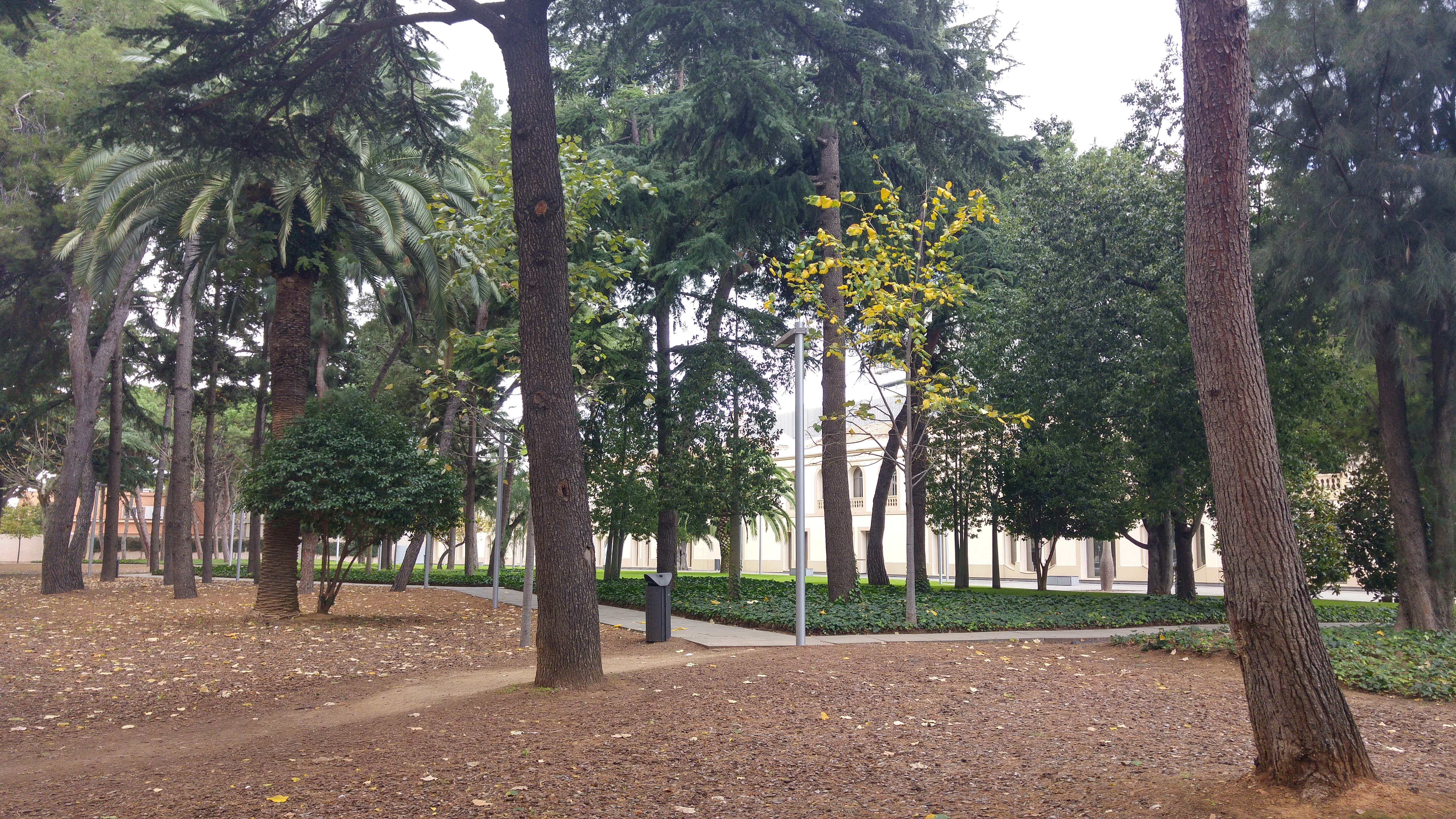 Facilities of former Frenopàtic Institute of les Corts (1863-2000) founded by Thomas Dolsa and Pau Malet in Barcelona. Preserved facade of the building, the annexe tower El Pinar and part of the gardens